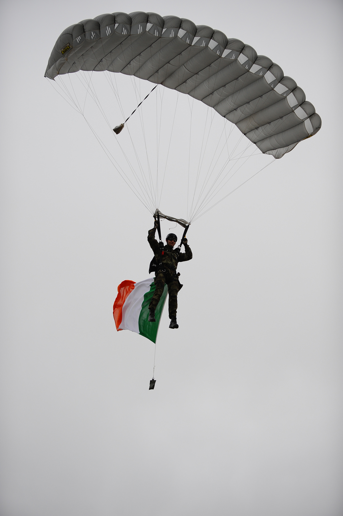 Irish Army Ranger Wing (ARW) parachuting display for ARW 30th Anniversary.